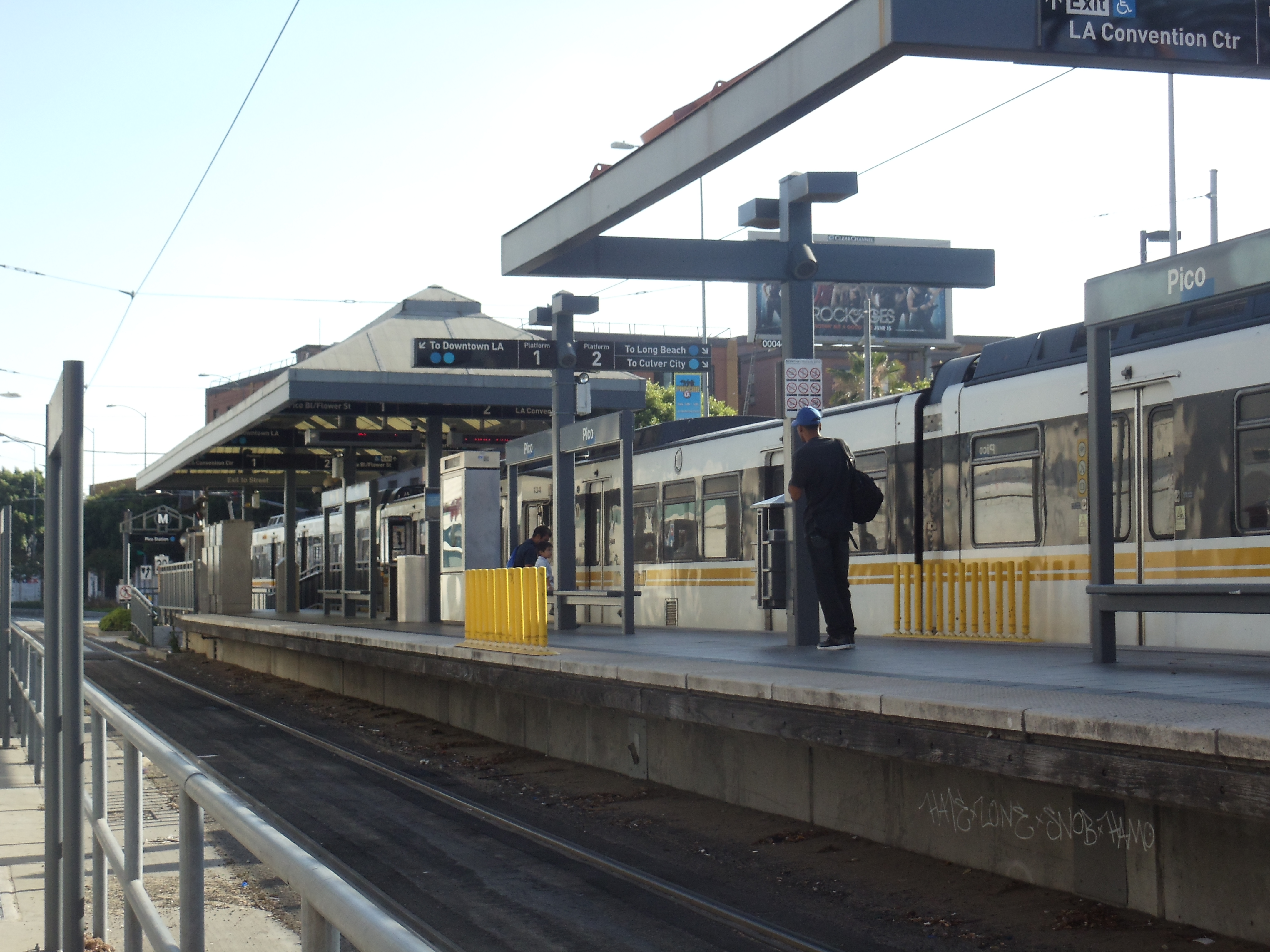 Pico Metro Blue & Expo Lines Station — southwestern Downtown Los Angeles. Station for the Los Angeles Convention Center + Nokia Theater complex.